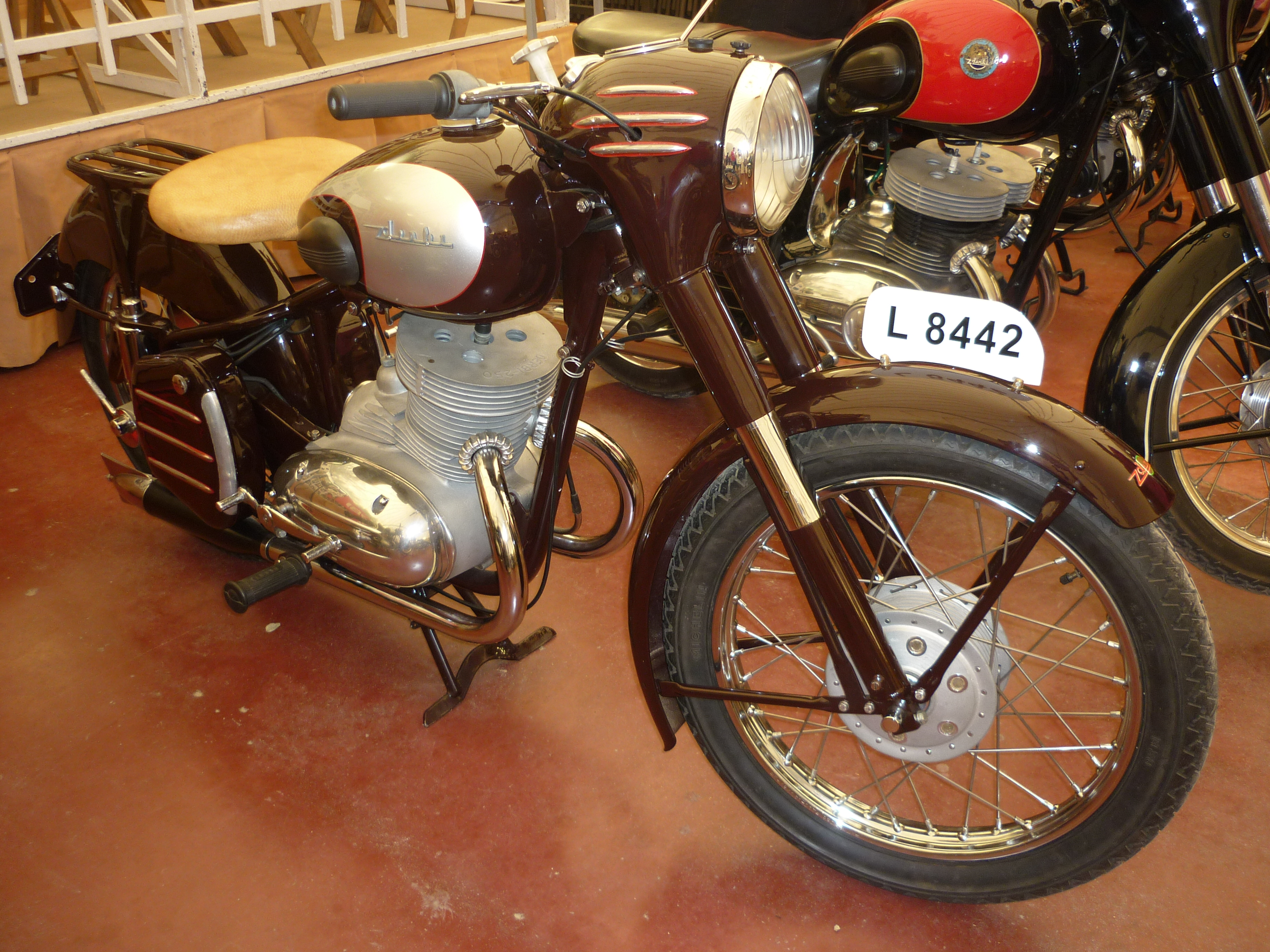 Derbi 250cc (1955). Motorcycle meeting held on September 10, 2011 in Can Carrancà (near the Derbi factory in Martorelles, Catalonia).